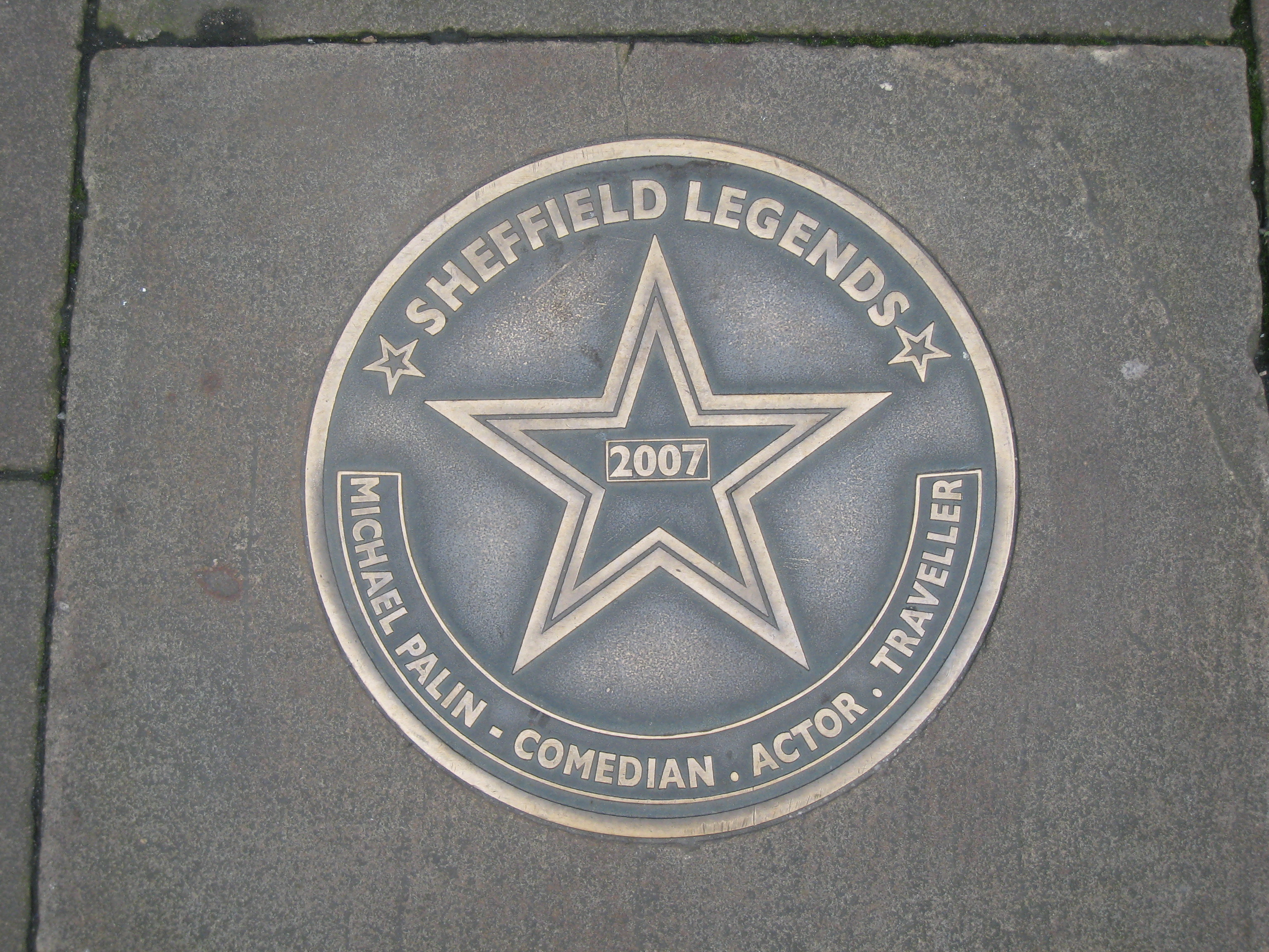 Commemorative star in the pavement outside Sheffield Town Hall: a "walk of fame" for people associated with the city. Michael Palin.